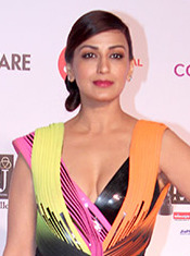 Sonali Bendre attends the 63rd Jio Filmfare Awards 2018, Jan 21.